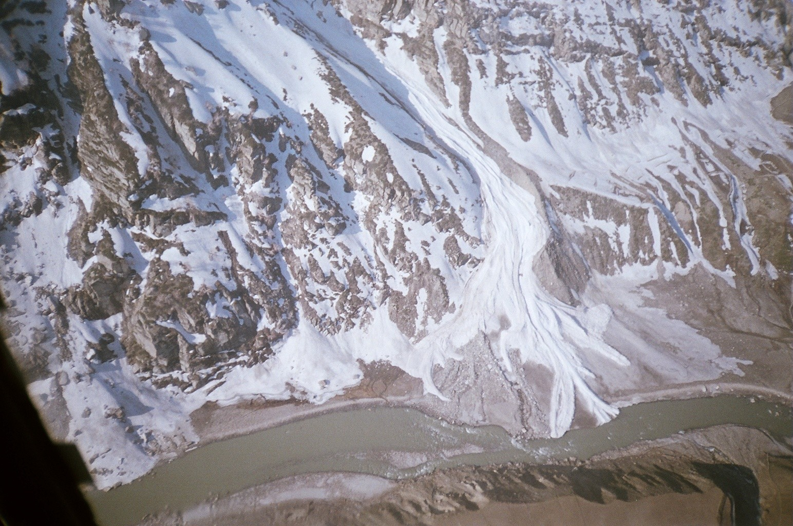 Avalanche causing closure of Manali-Leh road in India